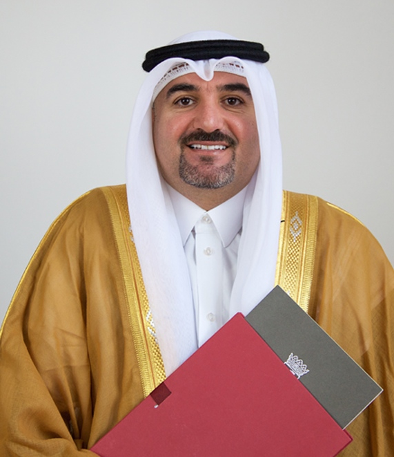 Shaykh Amir al-Dandal of the Uqaydat (Aghedat) tribe of Bukamal, Syria.